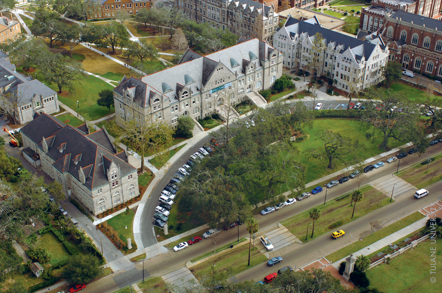 View from air of section of Tulane University fronting St. Charles Aveneue